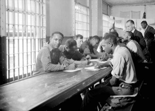 1937: "Negro literacy class at the Parish Prison, New Orleans. Interior."